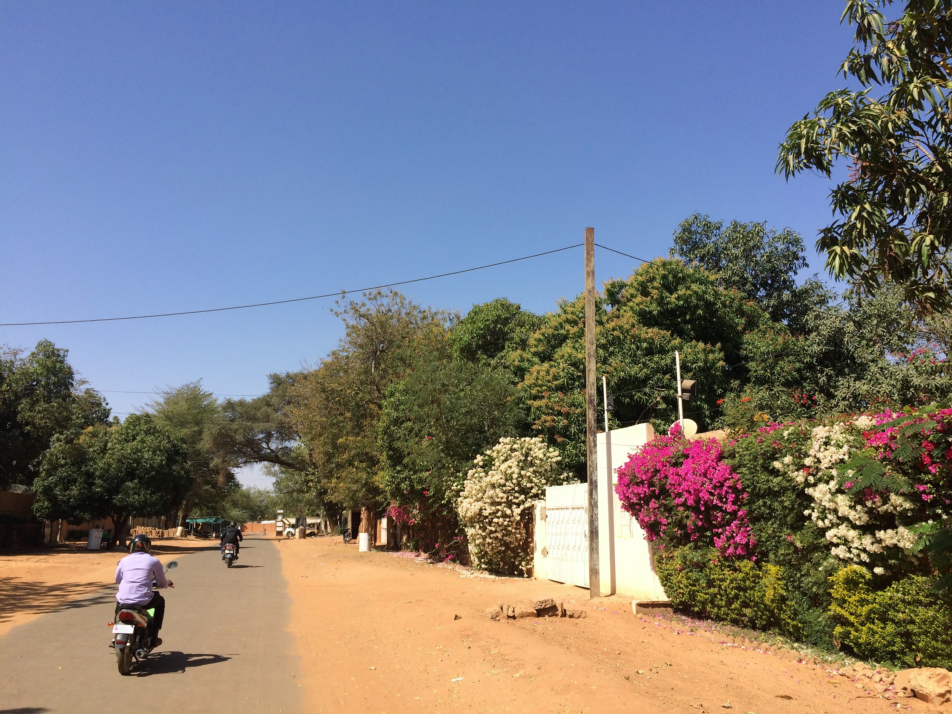 The quiet Rue des Lacs ("Lakes Street") in the residential Plateau neighborhood of Niamey, Niger.